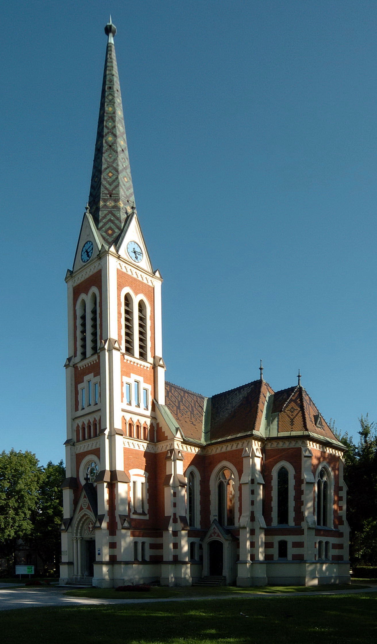 Lutheran parish church (built in Gothic revival style in 1902 according to plans of Ludwig Schöne, consecrated in 1903), Wilhelm Hohenheim Strasse, city of Villach, Carinthia, Austria, EU